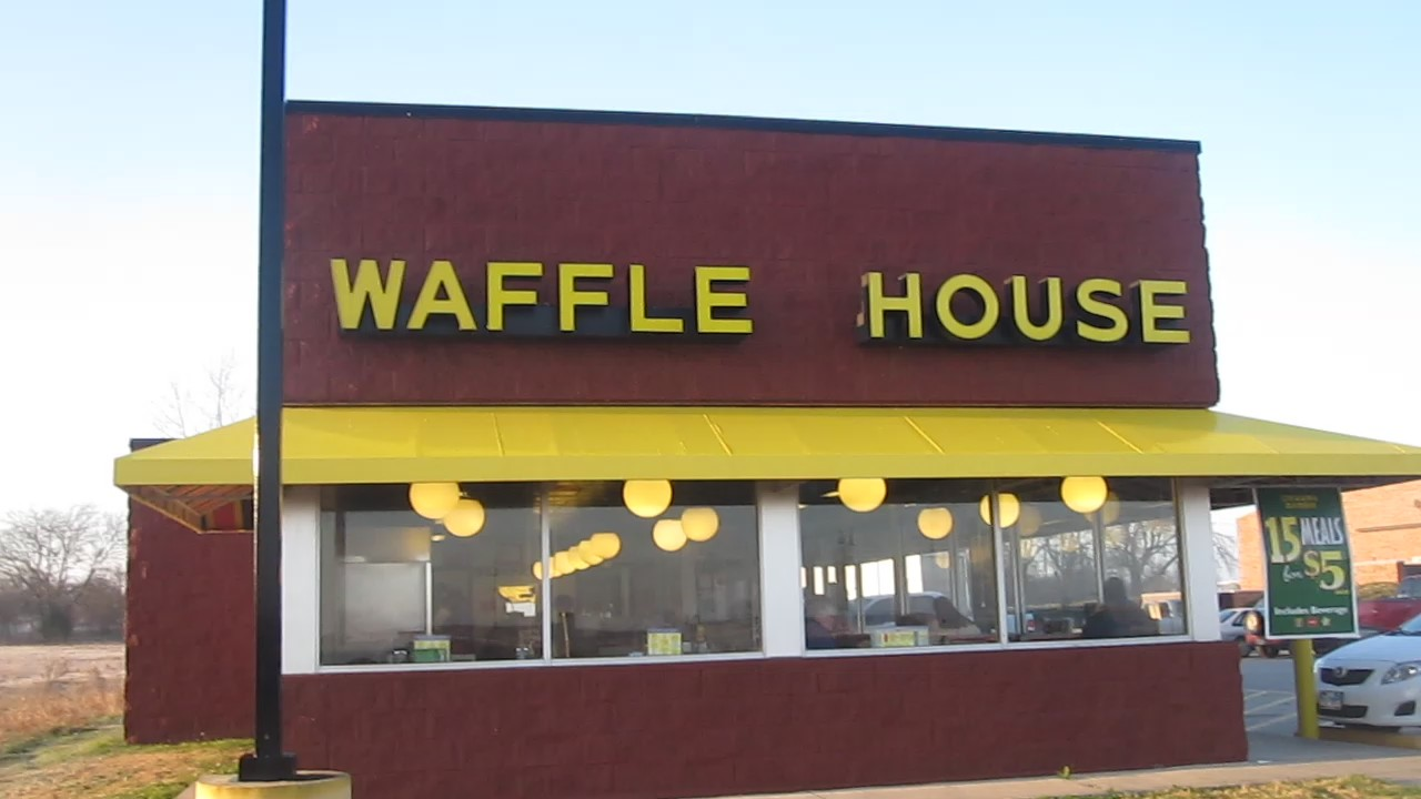 I took this picture in Fort Worth with Canon camera.